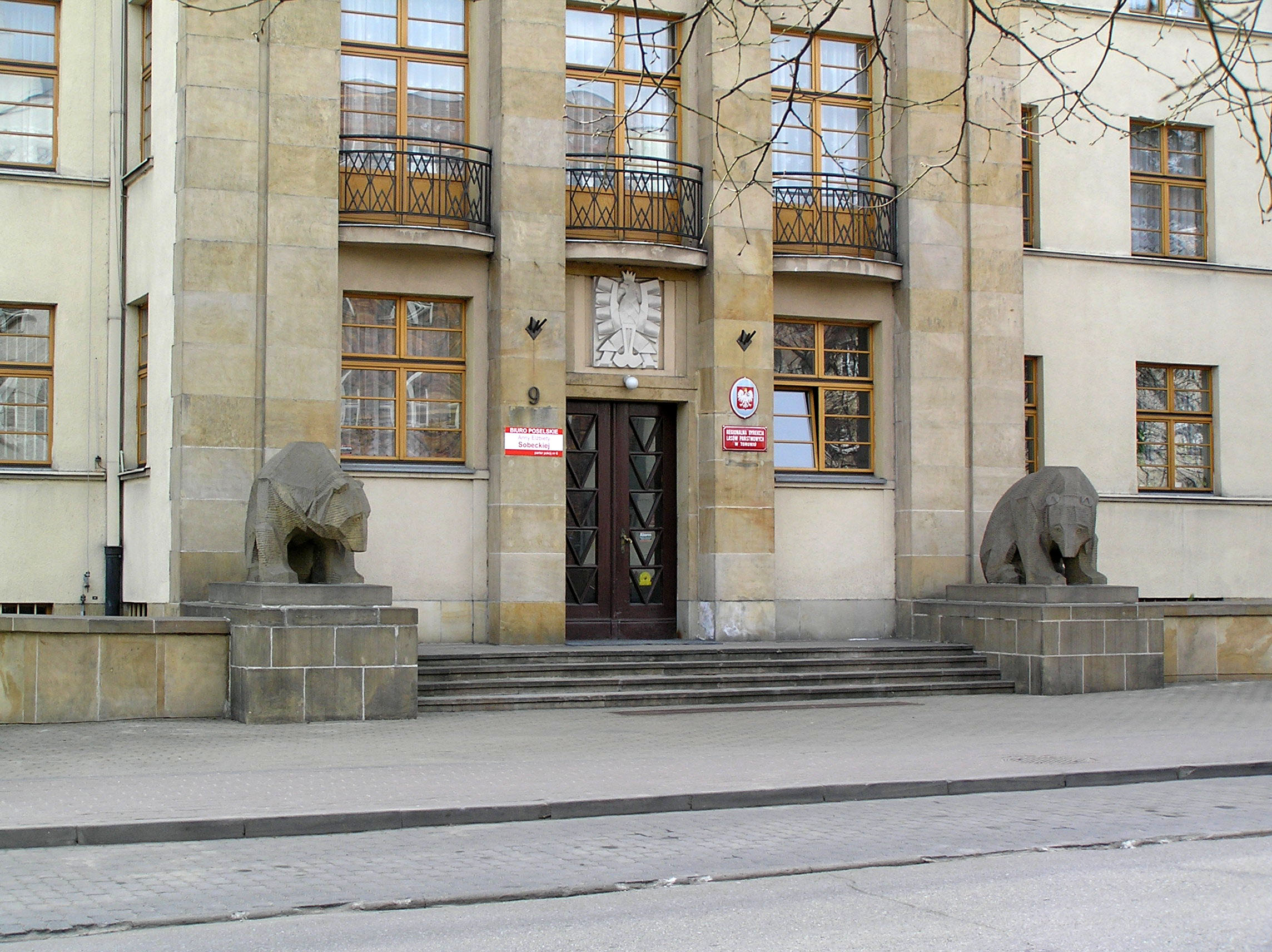 Toruń, Regional seat of National Forests Office, entrance with sculptures by Ignacy Zelek.